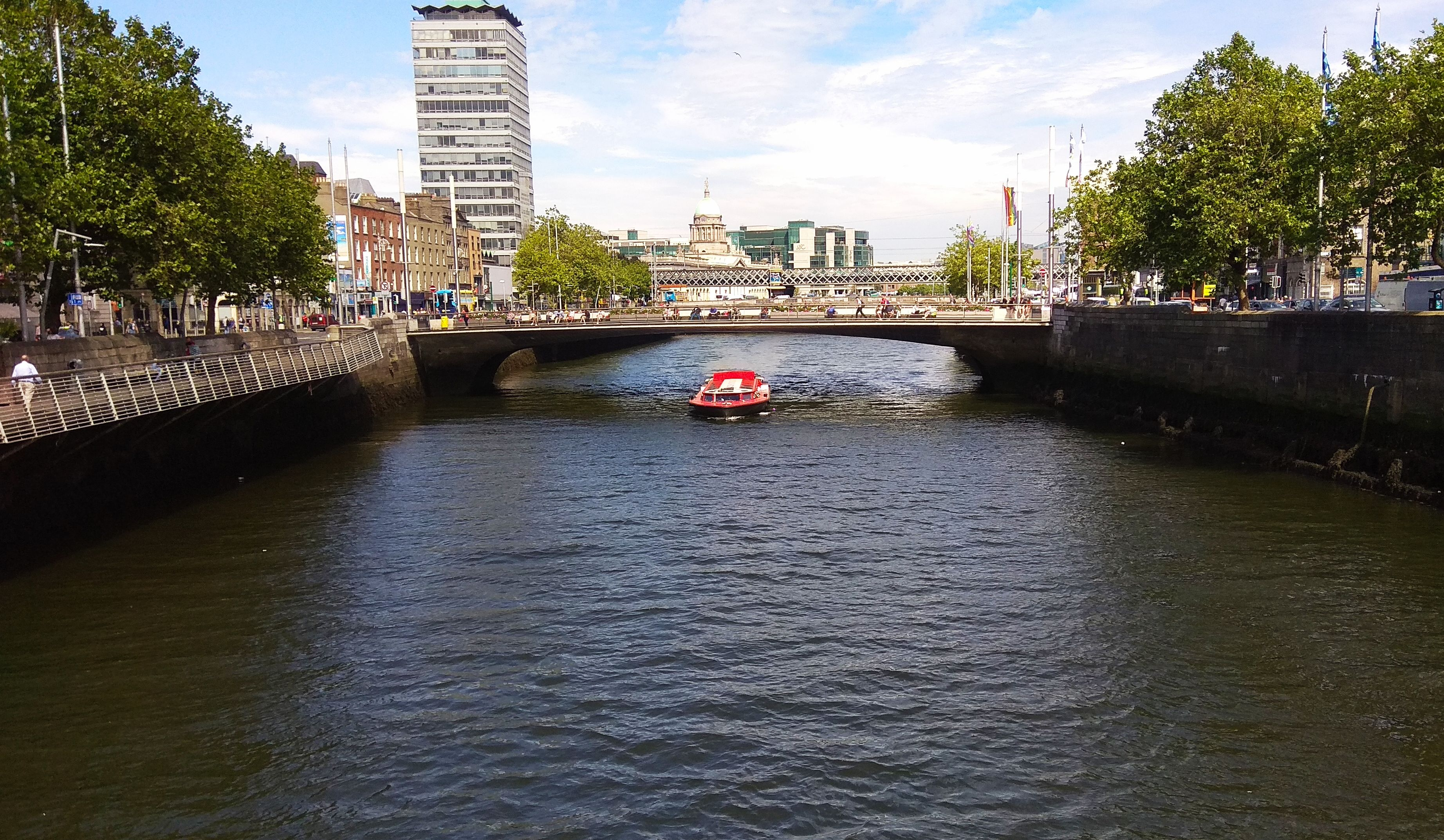 Rosie Hackett Bridge, Dublin